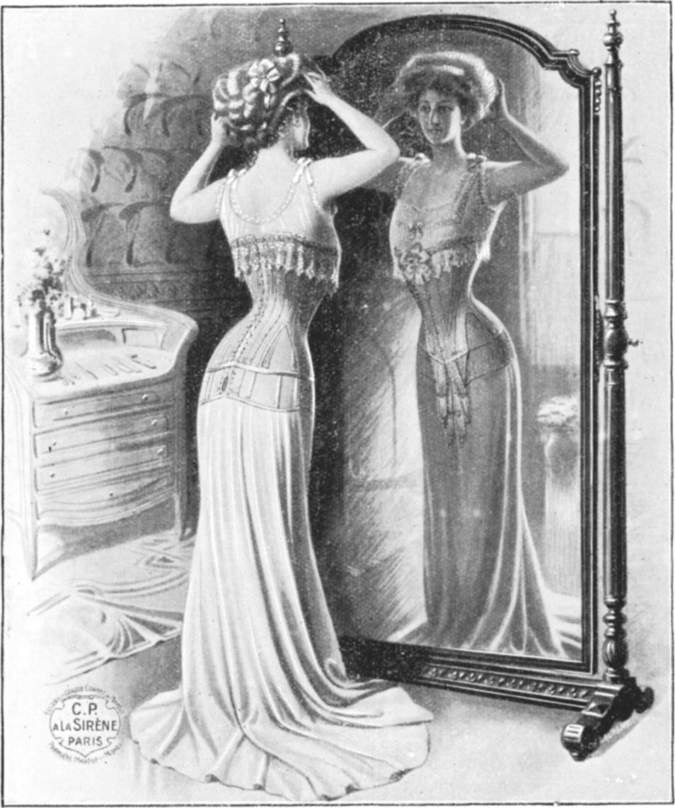 THE NEOS IS PATENTED IN ALL COUNTRIESBEWARE OF COUNTERFEITING AND IMITATIONNÉOS CORSET-STRANGE of Dr. Fz GLENARD BKEVETÉ RAR A. L. FKANCE AND FOREIGNTHE NEOS IS ON SALE IN THE MAIN HOUSES OF NEWS SPECIALTIESCORSETS IN FRANCE AND ABROADREQUIRE ON EVERY CORSET THE BRAND C.P. to the Mermaid AND The Inscription "THE NEOS" CORSET-STRING OF DOCTOR FZ GLENARD PATENTED BY A. L. PARISThis CORSET, constantly studied, so that it reaches the highest perfection, has just been slightly modified. By a happy coincidence, this modification satisfies both the Fashion and the Hygiene, giving a feminine silhouette with normal proportions, so the adaptation of the corset is made of the easiest.The NEOS is a hygienic and aesthetic corset par excellence; more than any other, he can face the criticism of the adversaries of the corset, for the principles on which his establishment and construction have been based, have received proof of their accuracy and efficiency.The appreciations of the most authorized people, the success obtained by the NEOS in the whole world, the numerous attempts of counterfeits or coarse imitations of which it is the object provide the most obvious demonstration.We remind you that the NEOS is the corset that adapts the most easily to all sizes, that it keeps flexibility to the bust, that it prevents and fights the abdominal overweight as well as the impasto of the hips, that it strengthens the abdominal wall, thus avoiding its relaxation and the resulting accidents.It becomes valuable for people suffering from belly-weight, as well as those whose abdominal organs are displaced, either as a result of repeated pregnancies, enteroptosis, etc. ; for, in addition to the immediate relief it provides in these cases, it gives the female torsos the graceful curves which are the adornment of the Woman.